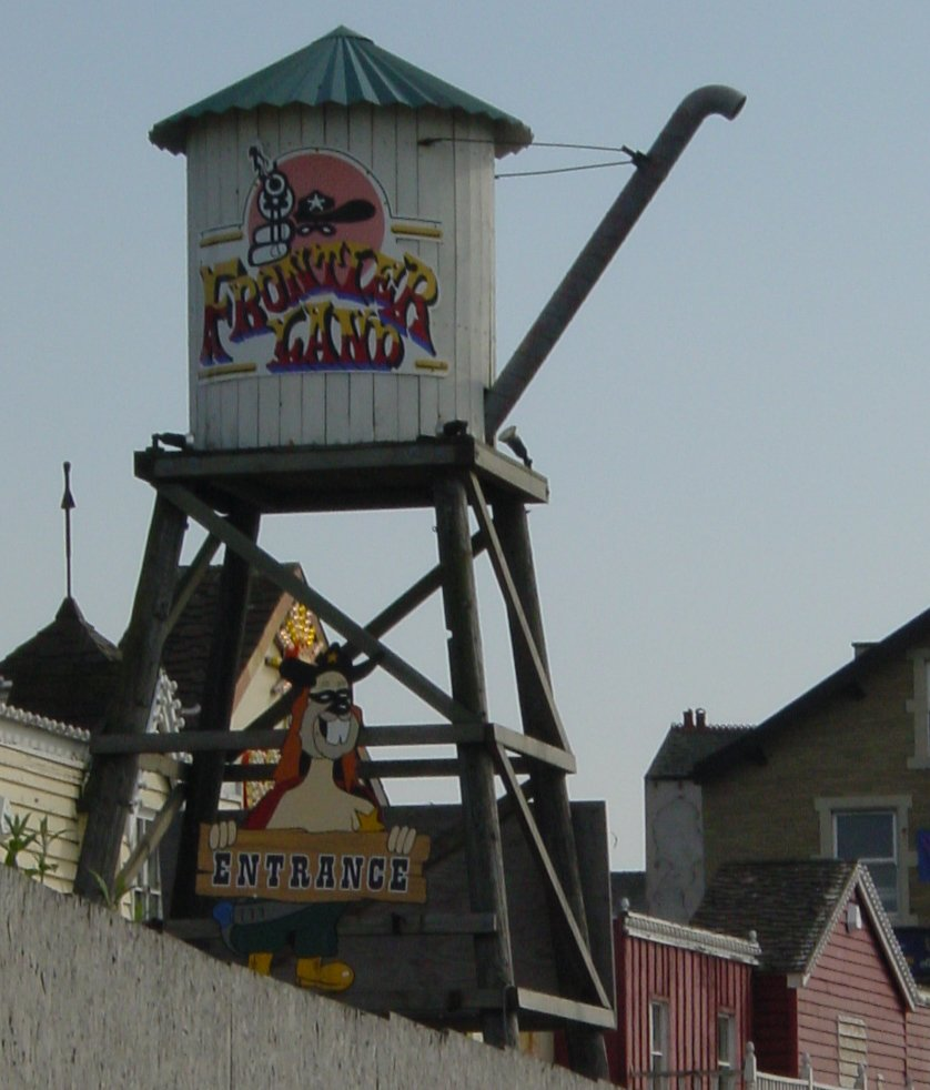 Entrance signage at Frontierland, Morecambe in June 2005